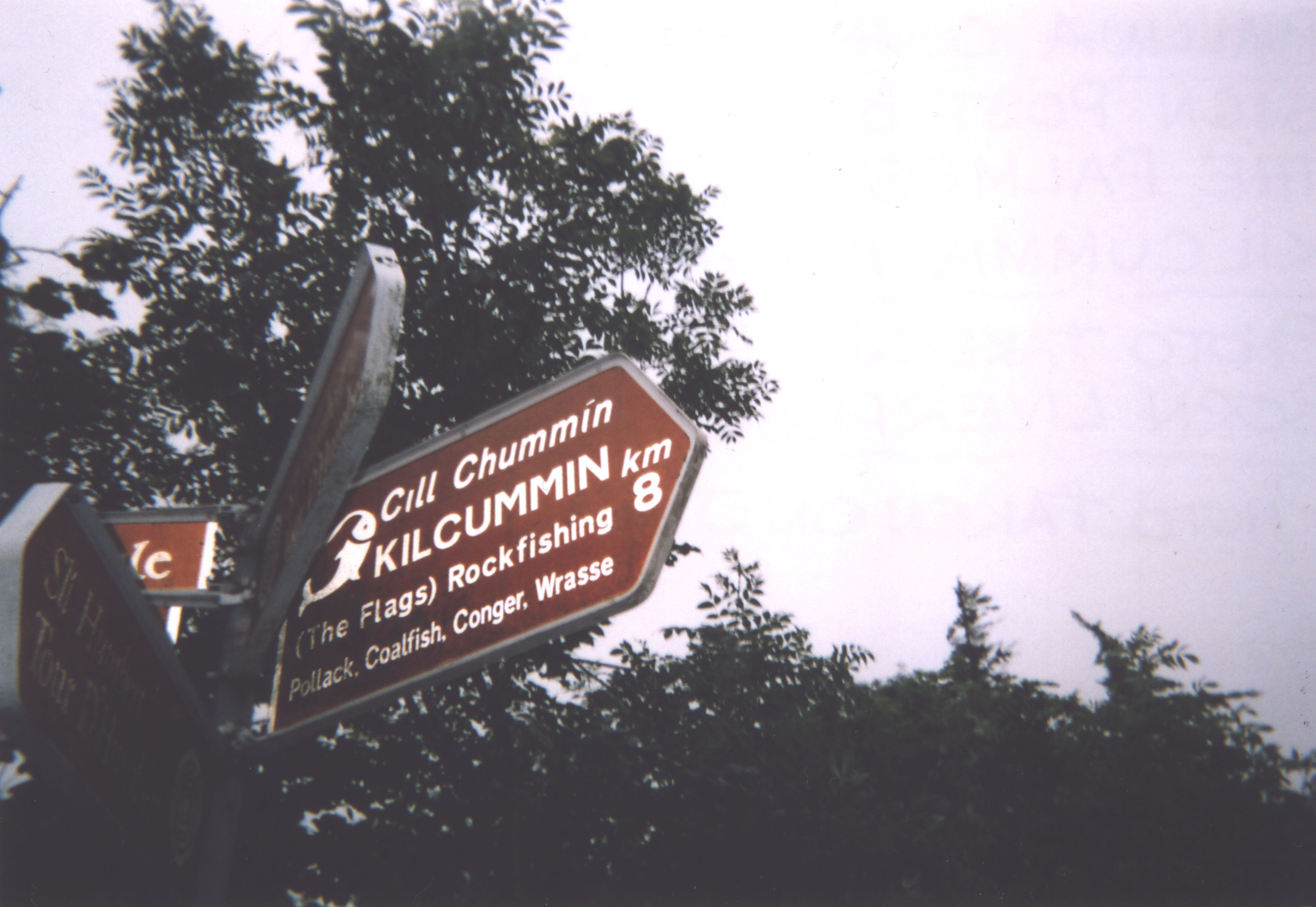 Sign Post by the bridge over the Palmeston River. Kilcummin in Galic Irish. Ballina, County Mayo, Ireland Posted by Philip Cummings, born Liverpool 1940.